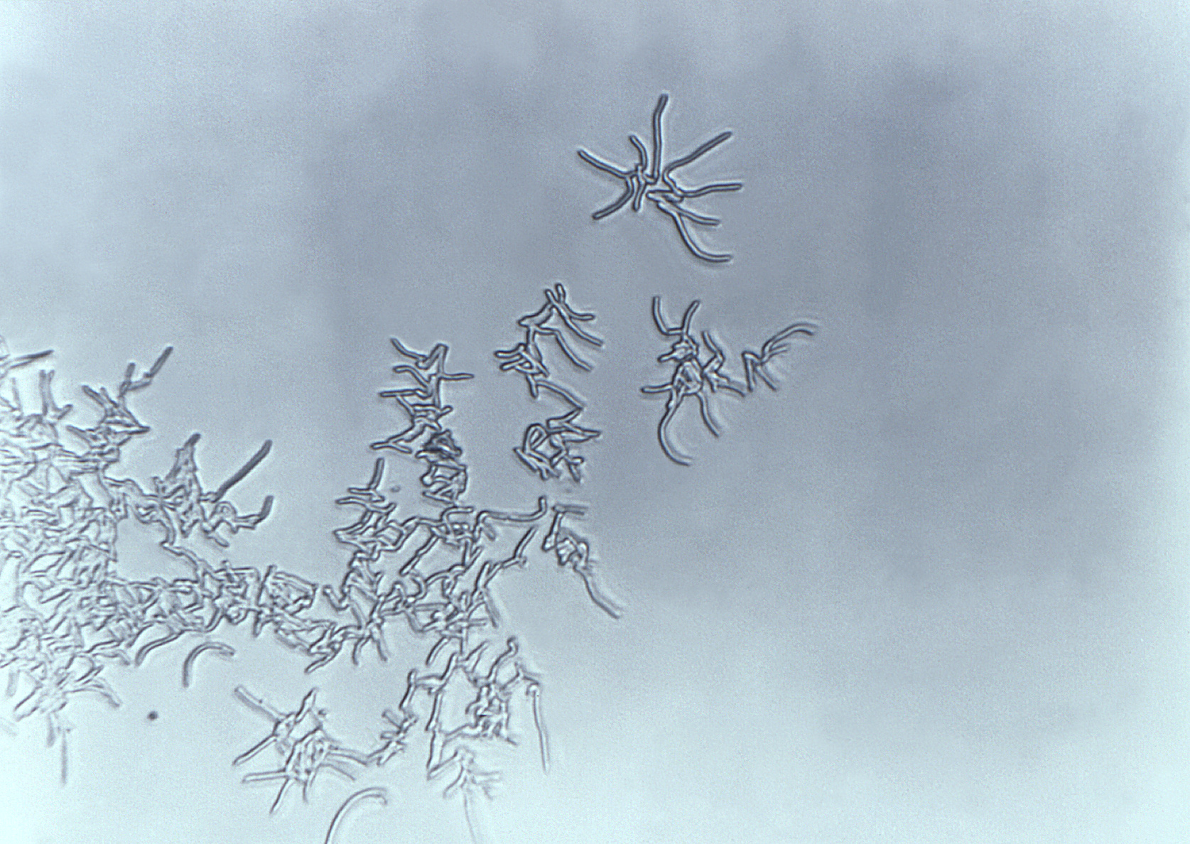 This slide culture shows Rhodococcus group bacteria that has been cultured on tap water agar. Rhodococci are aerobic, gram-positive fungus-like bacteria. A few species of Rhodococcus are pathogenic, but the majority appears to be benign soil inhabitants that facilitate decomposition processes.